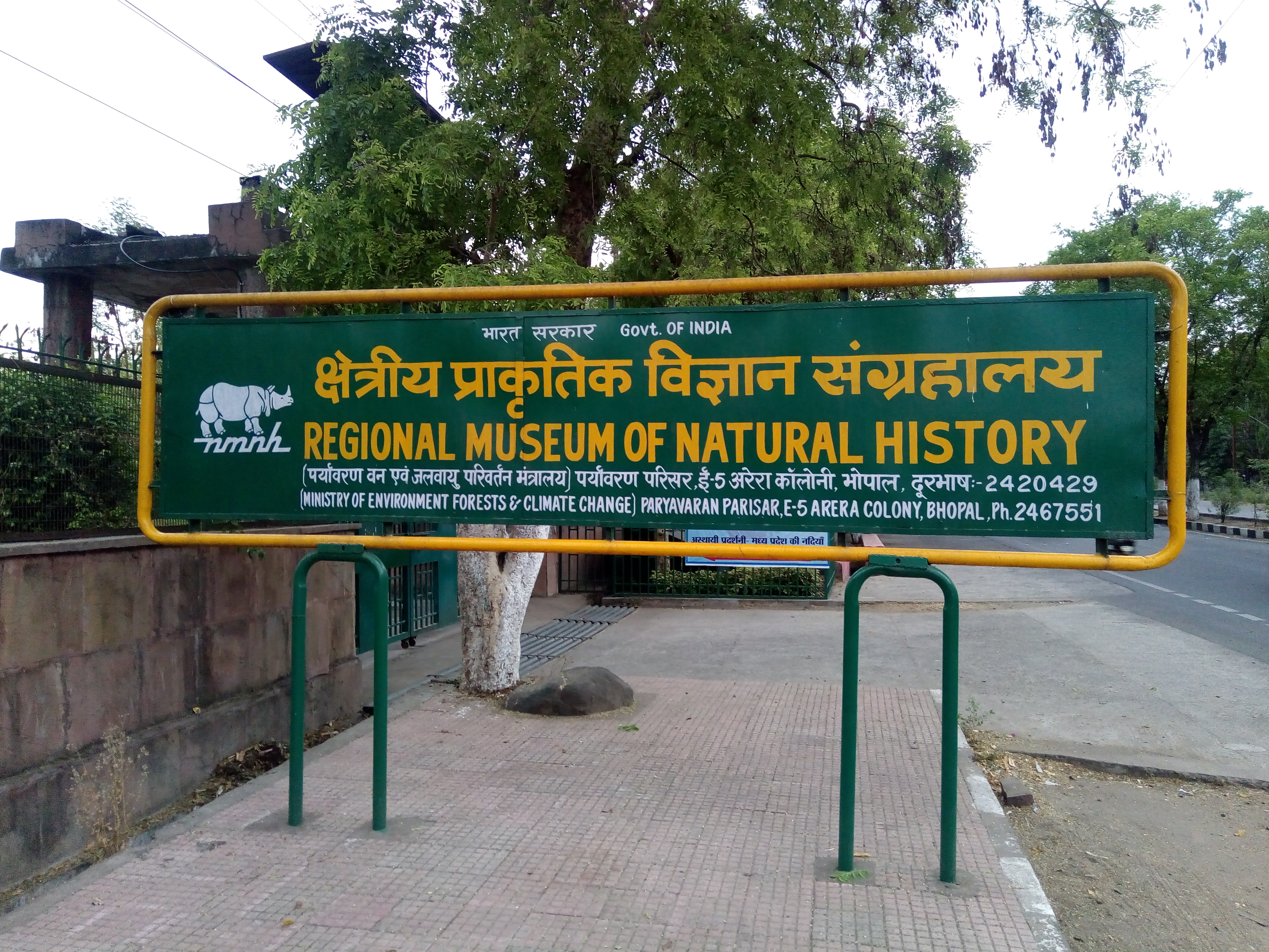 regional Museum of natural history Bhopal